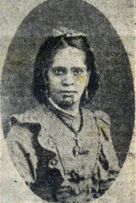 Riperata Kahutia,(1838/39?-1887), wahine rangatira (chieftainess) of the Te Aitanga-a-Māhaki tribe, Gisborne area, New Zealand. She is the mother of Hēni Materoa, wife of New Zealand politician Sir James Carroll (Timi Kara).